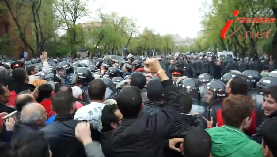 2013 Armenian protests on April 9, 2013 Baghramyan Avenue